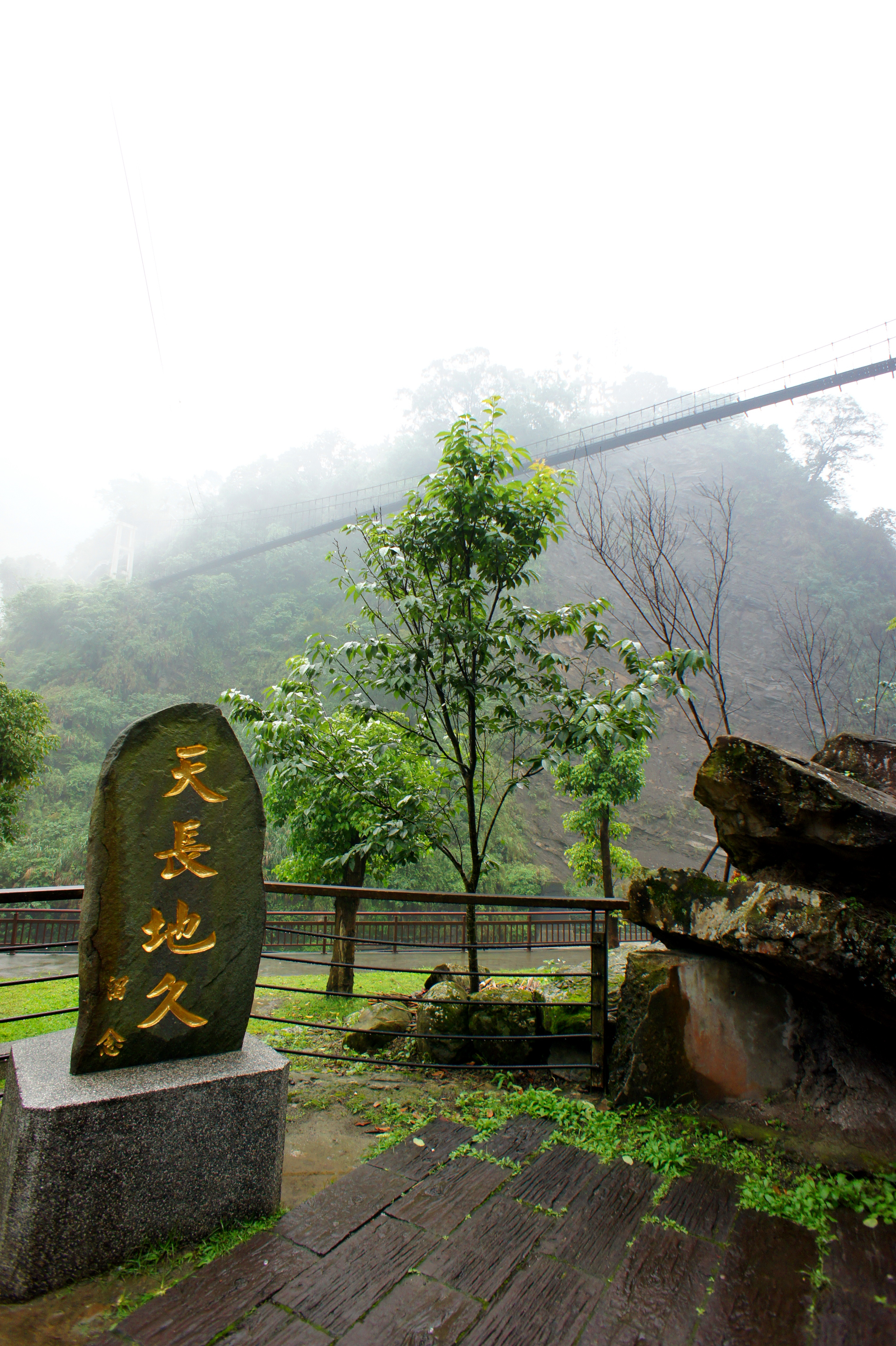 Tianchang Suspension Bridge, Chukou Village, Fanlu Township, Chiayi, Taiwan.